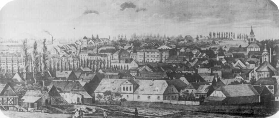 Panorama of Bielsko and Biala, 1860 year.